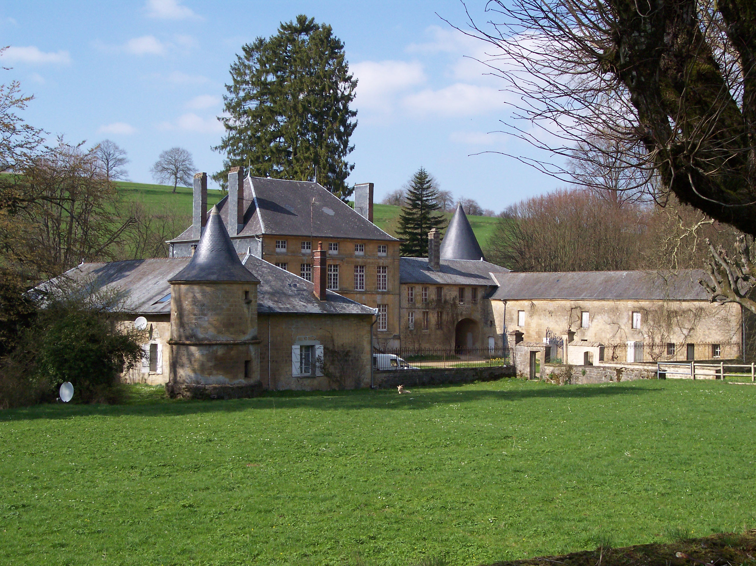 Gruyères castle, Ardennes, France.